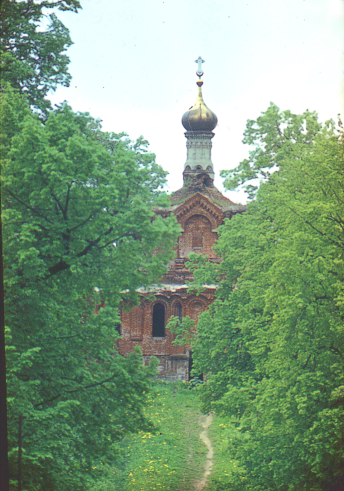 Saint Petersburg (Russia), Petergof.